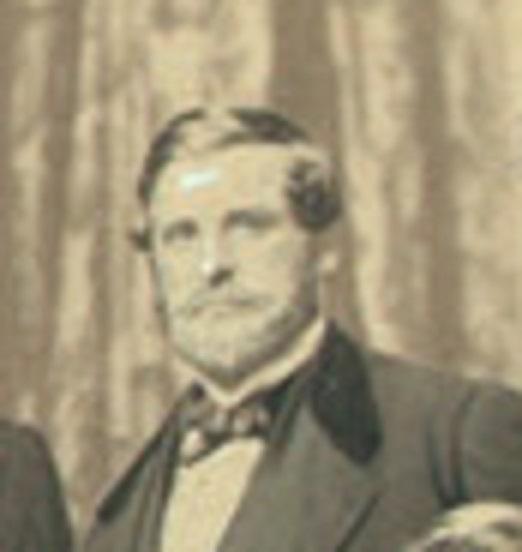 William H. Tucker, cropped from a larger image of the 1862 Knickerbockers reunion